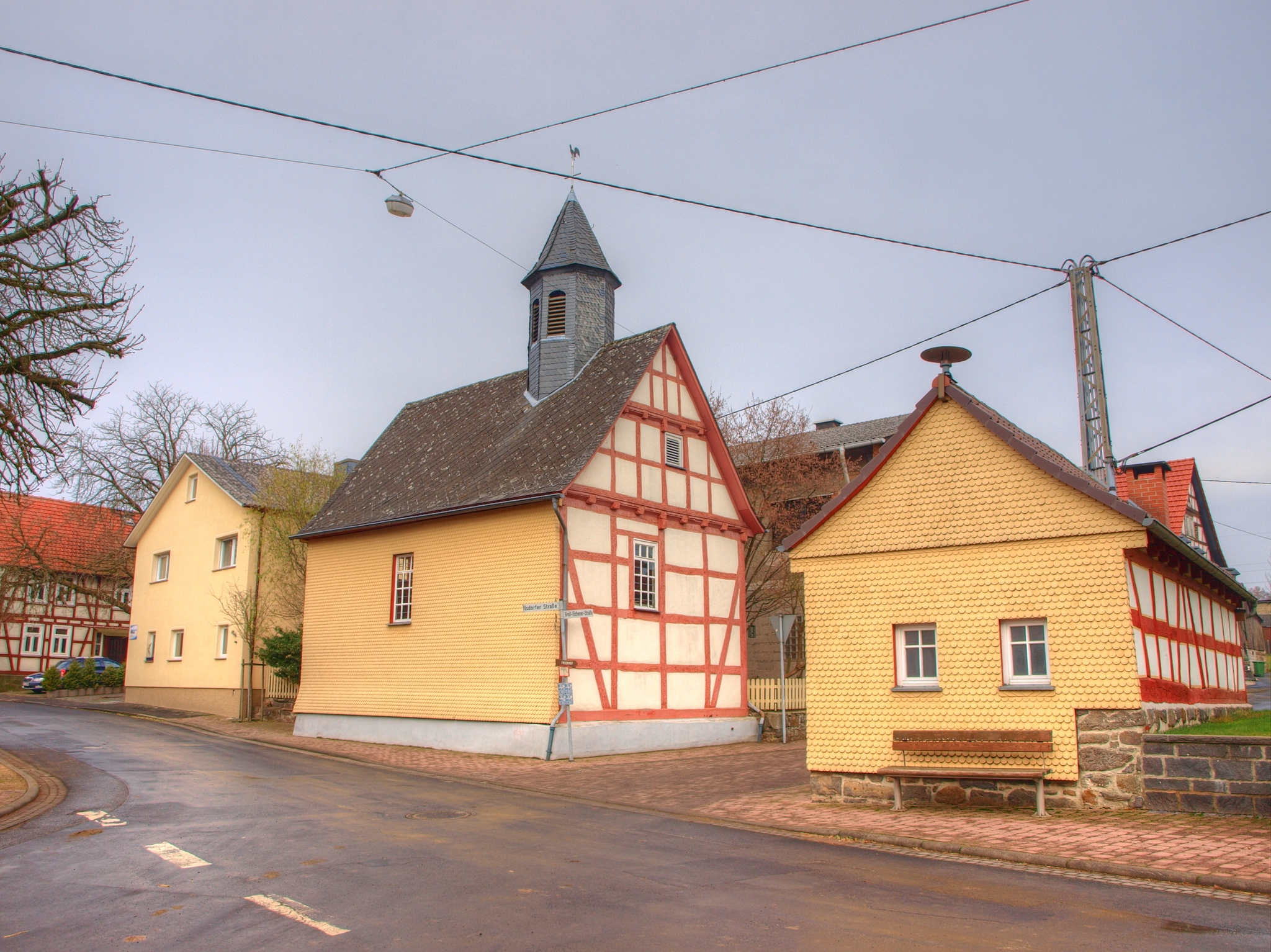 Protestant church and baking house of Klein-Eichen